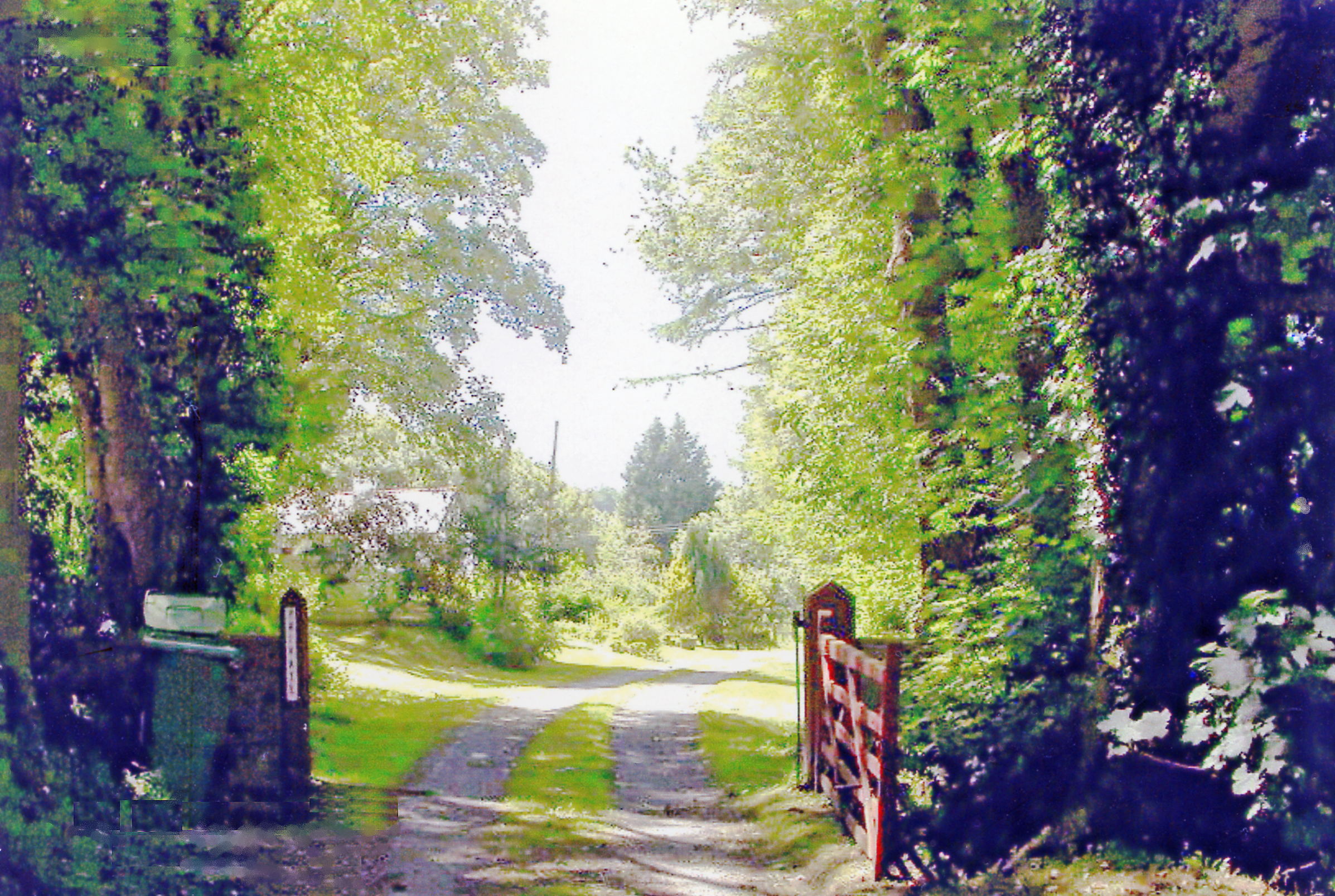 Site of former Maesycrugiau station, 2004. View southward near the village, towards Carmarthen on the track-bed of the ex-GWR Carmarthen - Aberystwyth line. The station was closed to passengers when the through service ceased 22/2/65, but goods continued until 9/9/65 and the line remained in place until 3/9/73 for the milk traffic all the way Carmarthen - Lampeter and onto the Aberayron branch as far as Felin Fach.